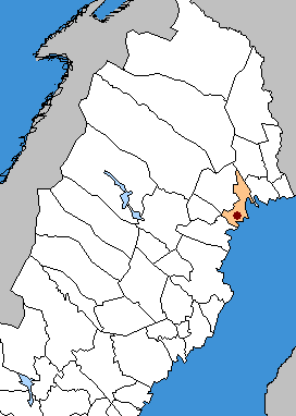 Location of Luleå in Sweden